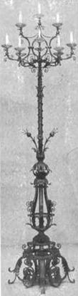 Detail of advertisement for John Williams and H.B. Stillman, "art in iron...art in bronze"